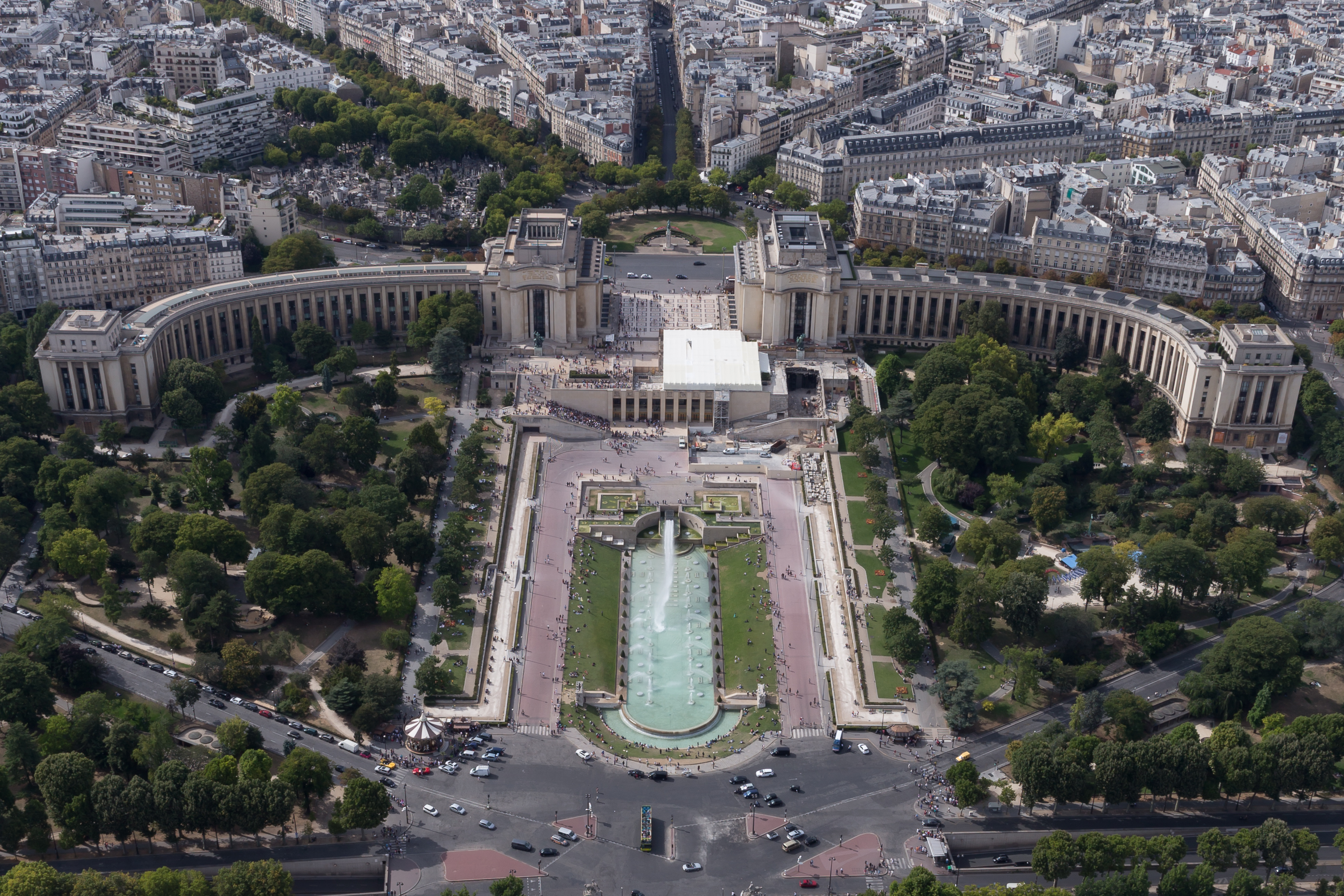 Facing Southeast palais de Chaillot and the jardins du Trocadéro from the Eiffel Tower in Paris.